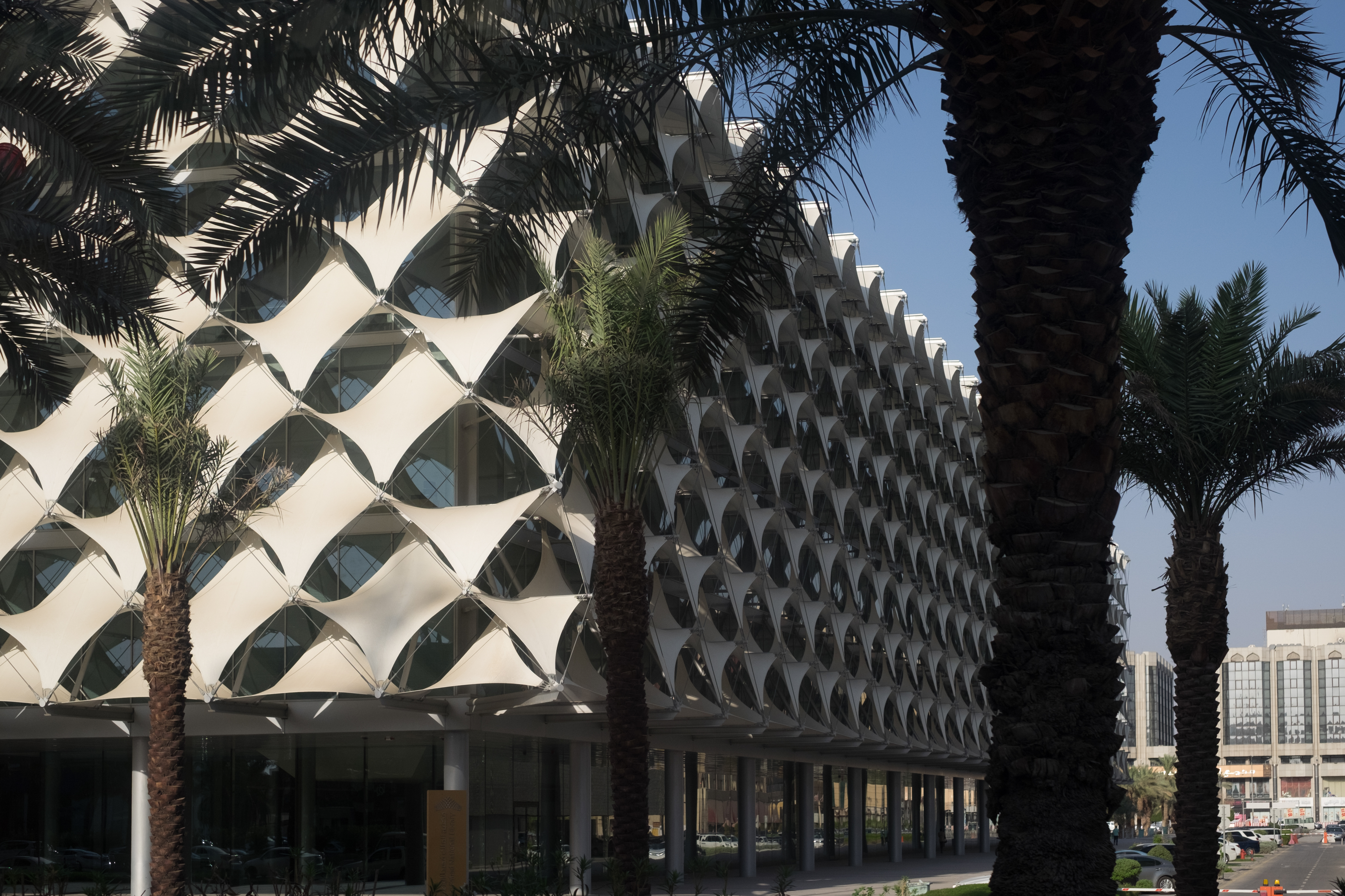 The Facade of the Kinf Fahd National Library in Riyadh